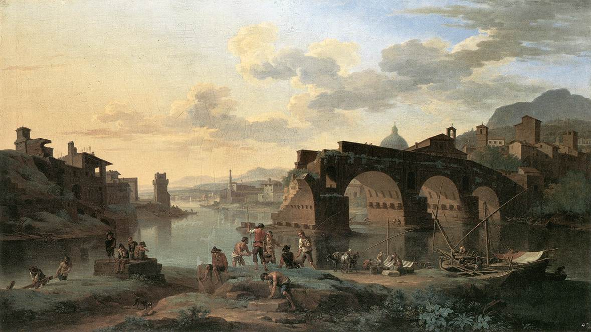 "River View with the Ponte Rotto" by Jacob de Heusch. Painted in 1696. Jacob de Heusch (1656–1701) Alternative namesGiacomo de Heusch, Afdruk, CopiaDescription Dutch painter and draughtsman Date of birth/death23 November 1656 (baptised)8 May 1701Location of birth/deathUtrechtAmsterdamWork locationRome (1675-1692)Authority control VIAF: 95850887 ISNI: 0000 0001 1690 5099 ULAN: 500027432 LCCN: nr98026392 WGA: 63c10526-0108-4aac-a19d-34b14d916f81 WorldCat